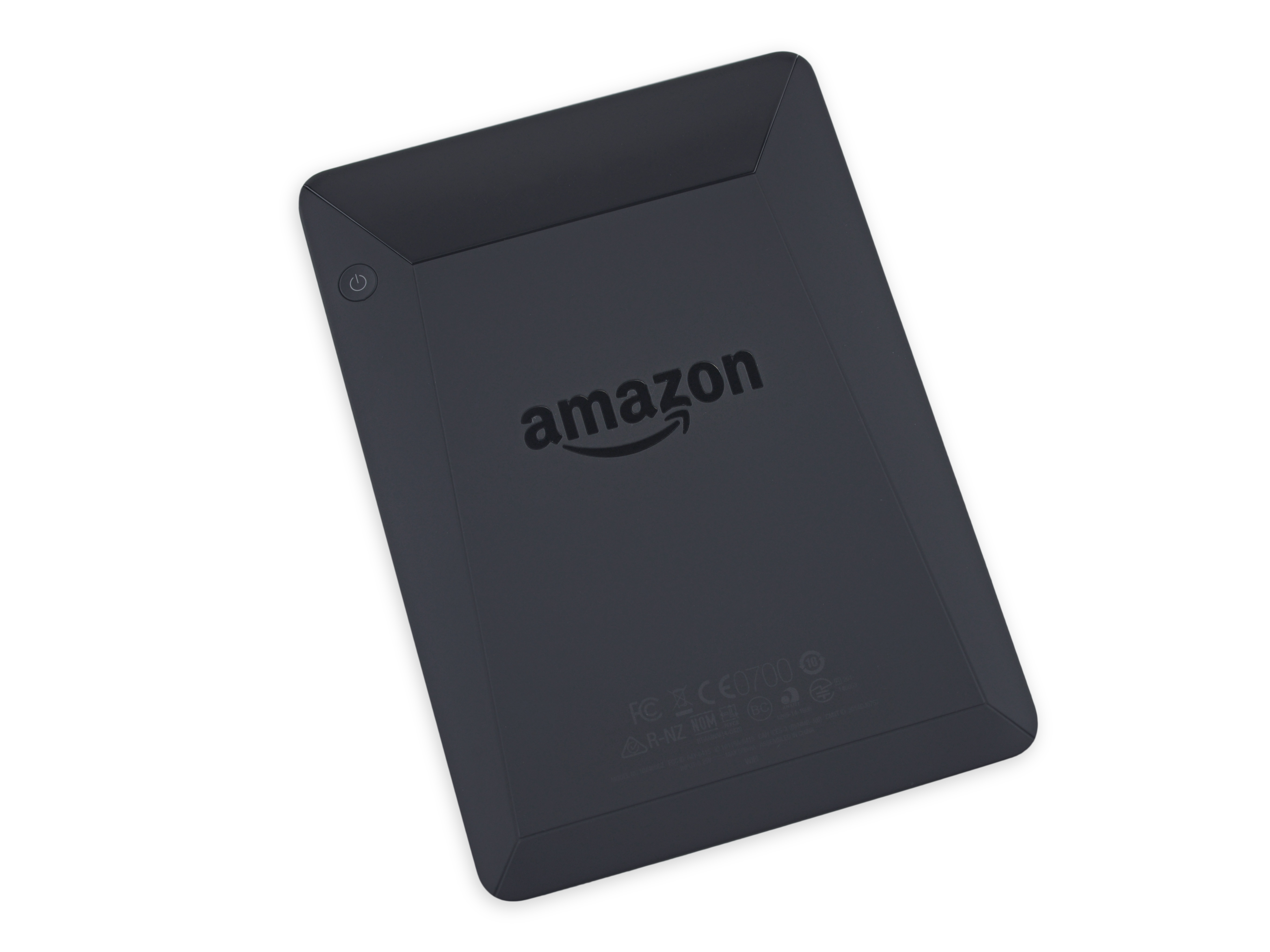 This is the Kindle Voyage's backside